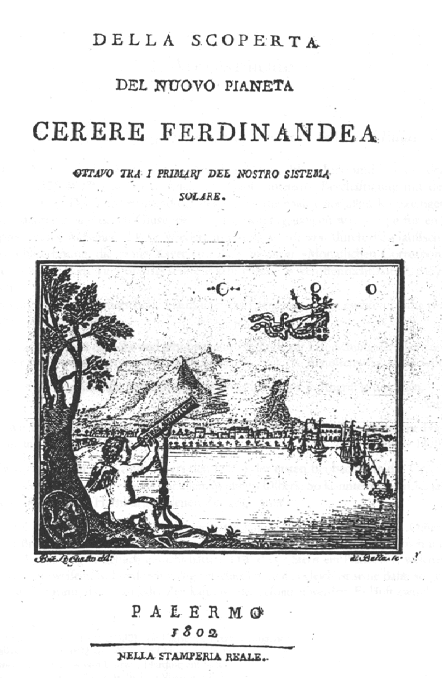 Front cover of Piazzi's book "Della scoperta del nuovo pianeta Cerere Ferdinandea, ottavo tra i primarj del nostro sistema solare" ("On the discovery of the new planet Ceres Ferdinandea, the eighth of those known in our solar system") describing his discovery of Ceres